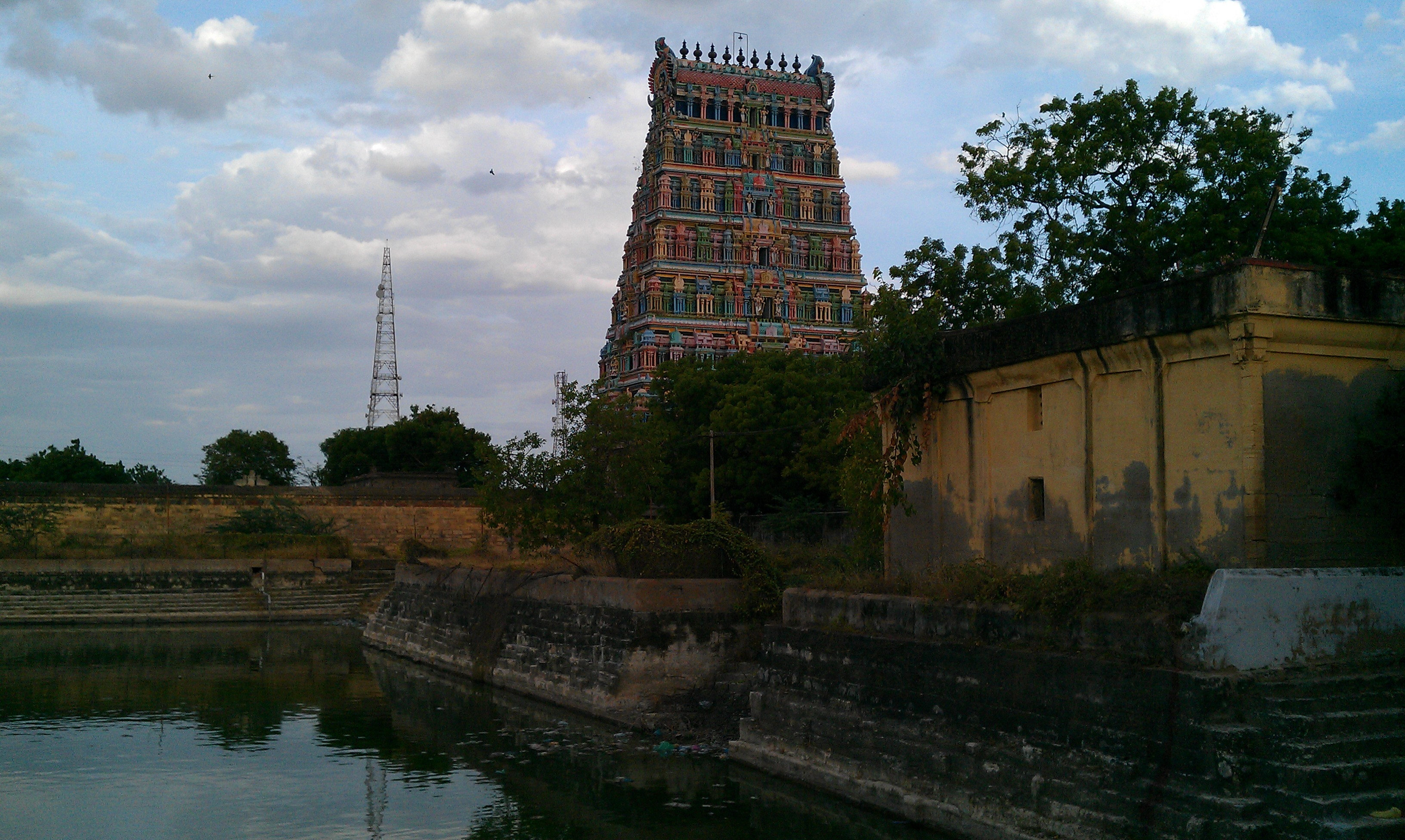 Uthiragosamangai